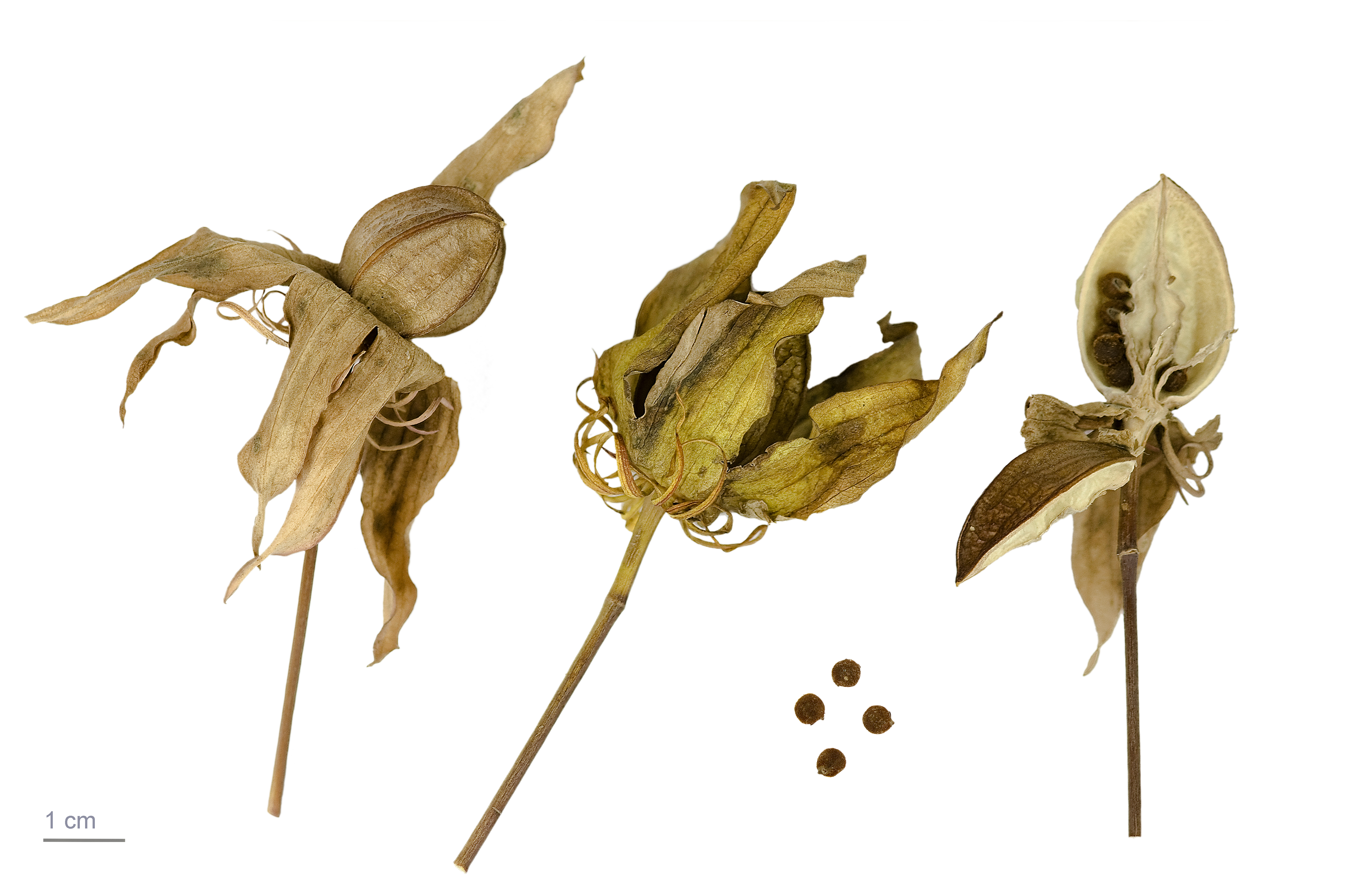 scarlet rose mallow, fruits and seeds